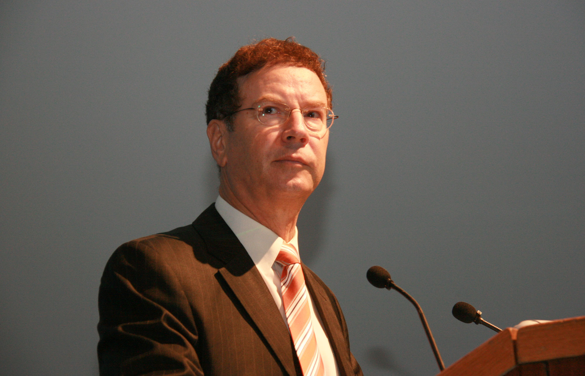 Gadi Sukenik